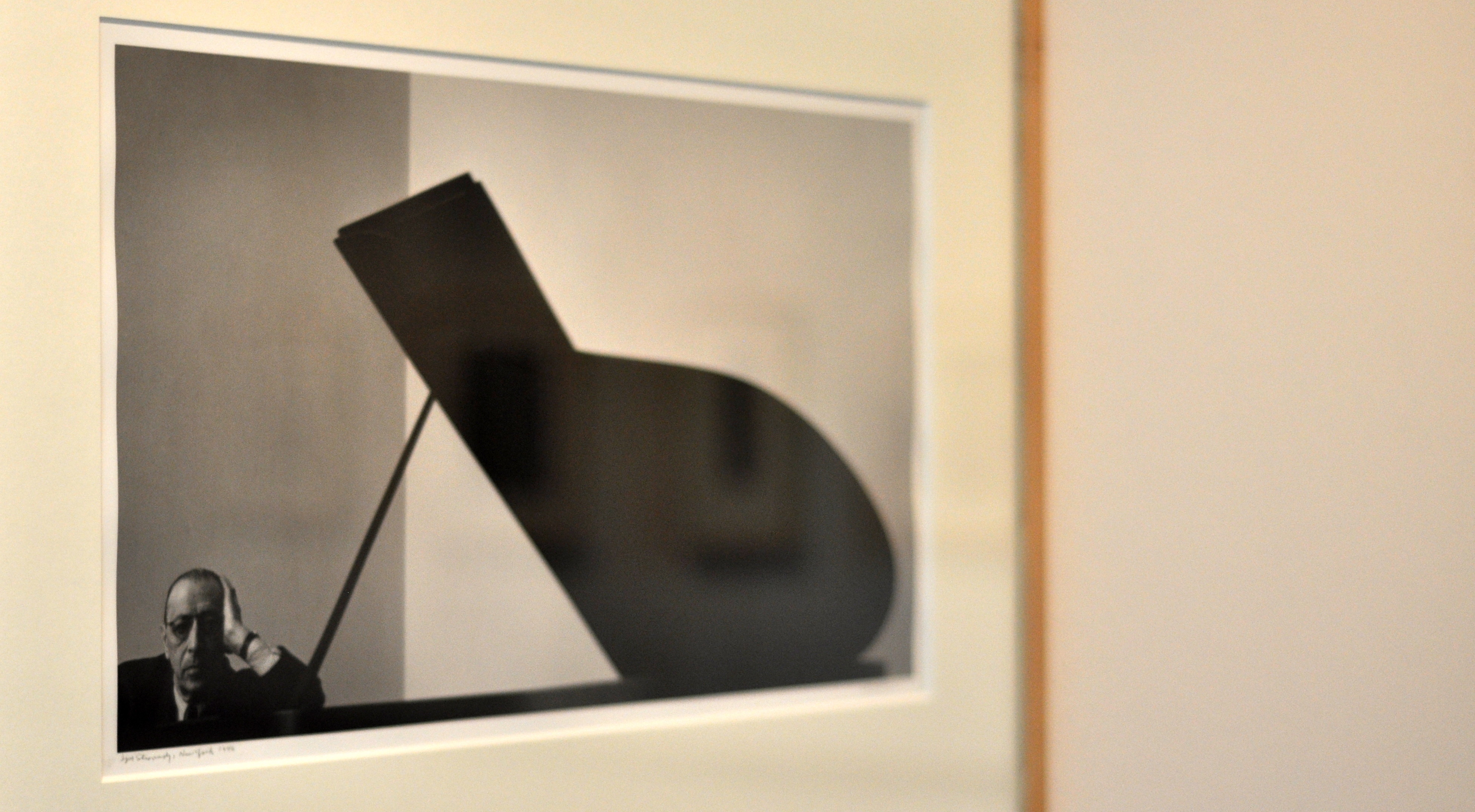 Igor Stravinsky by Arnold NewmanLousiana Art Museum, Humlebaek, DenmarkThe Louisiana Museum of Modern Art is an art museum located directly on the shore of the Øresund Sound in Humlebæk, 35 km (22 mi) north of Copenhagen, Denmark. It is the most visited ar